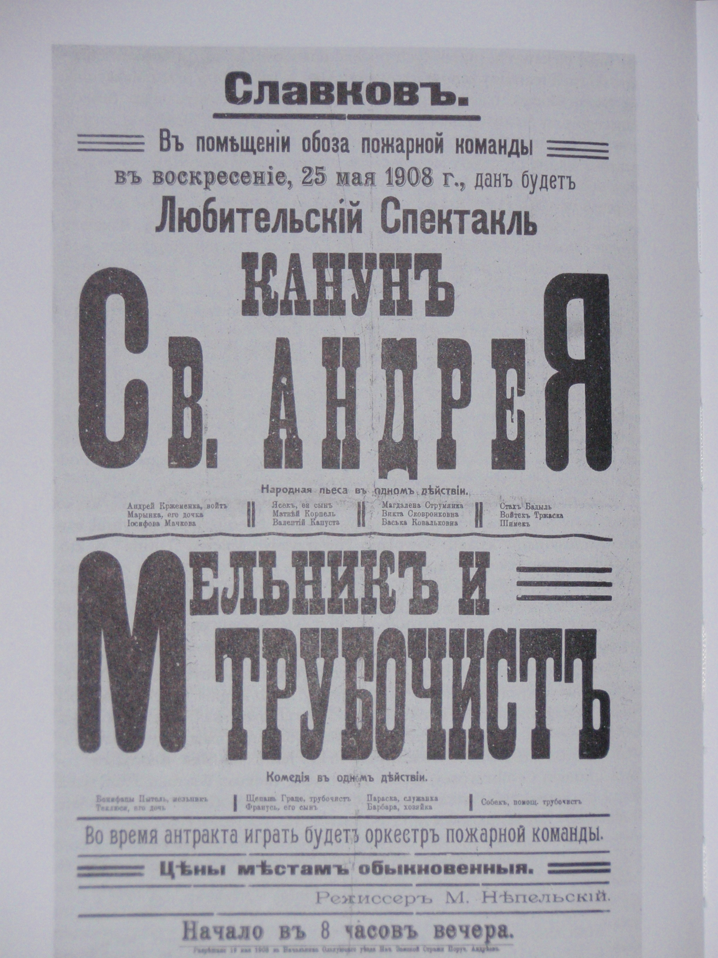 Theater poster in Russian dated 1908